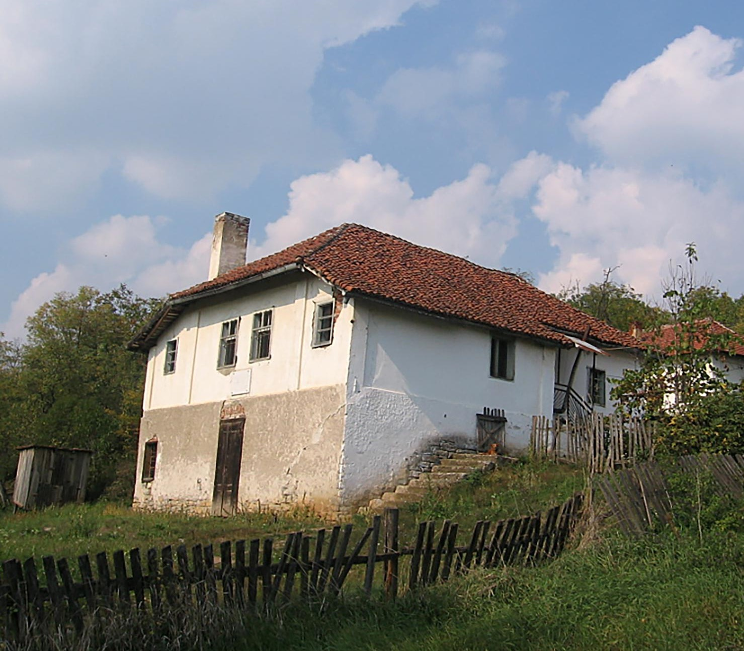 General look of Memorila house in Topionica, Knić